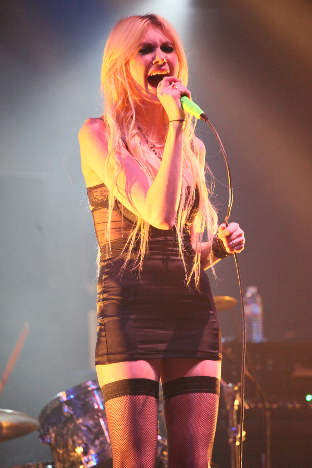 Taylor Momsen live on Warped Tour Kickoff.